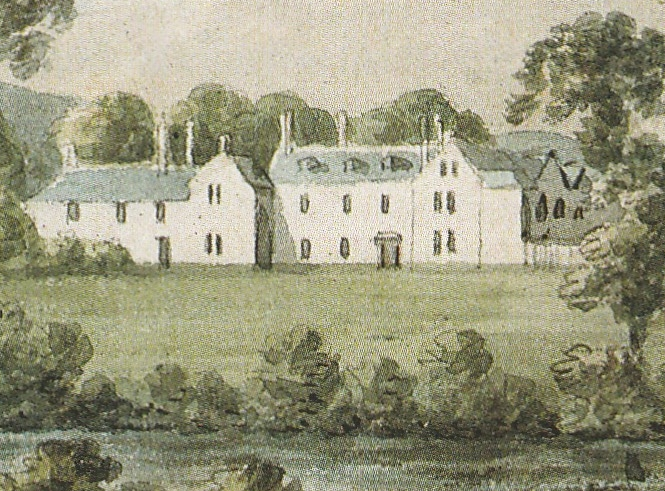 "Grange, seat of Francis Rose Drewe Esq." Detail from watercolour of The Grange, Broadhembury, Devon, by Rev. John Swete (d.1821) of Oxton House, Kenton, Devon, made during his visit there in June 1800. Devon Record Office 564M/F17/61